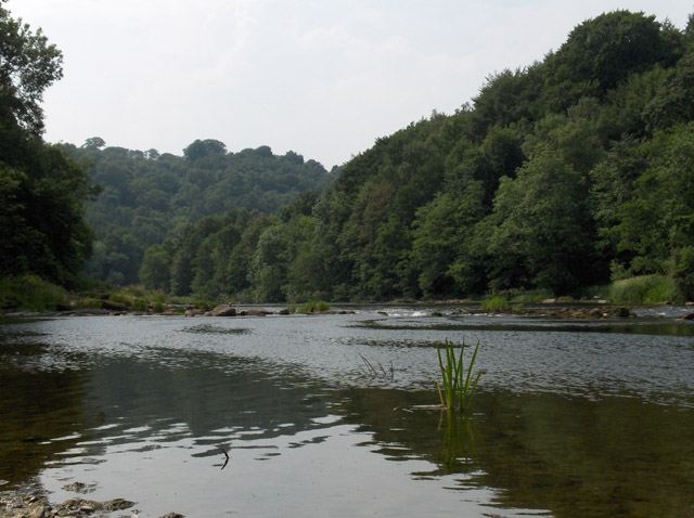 River Eden. Below Wallace Field.